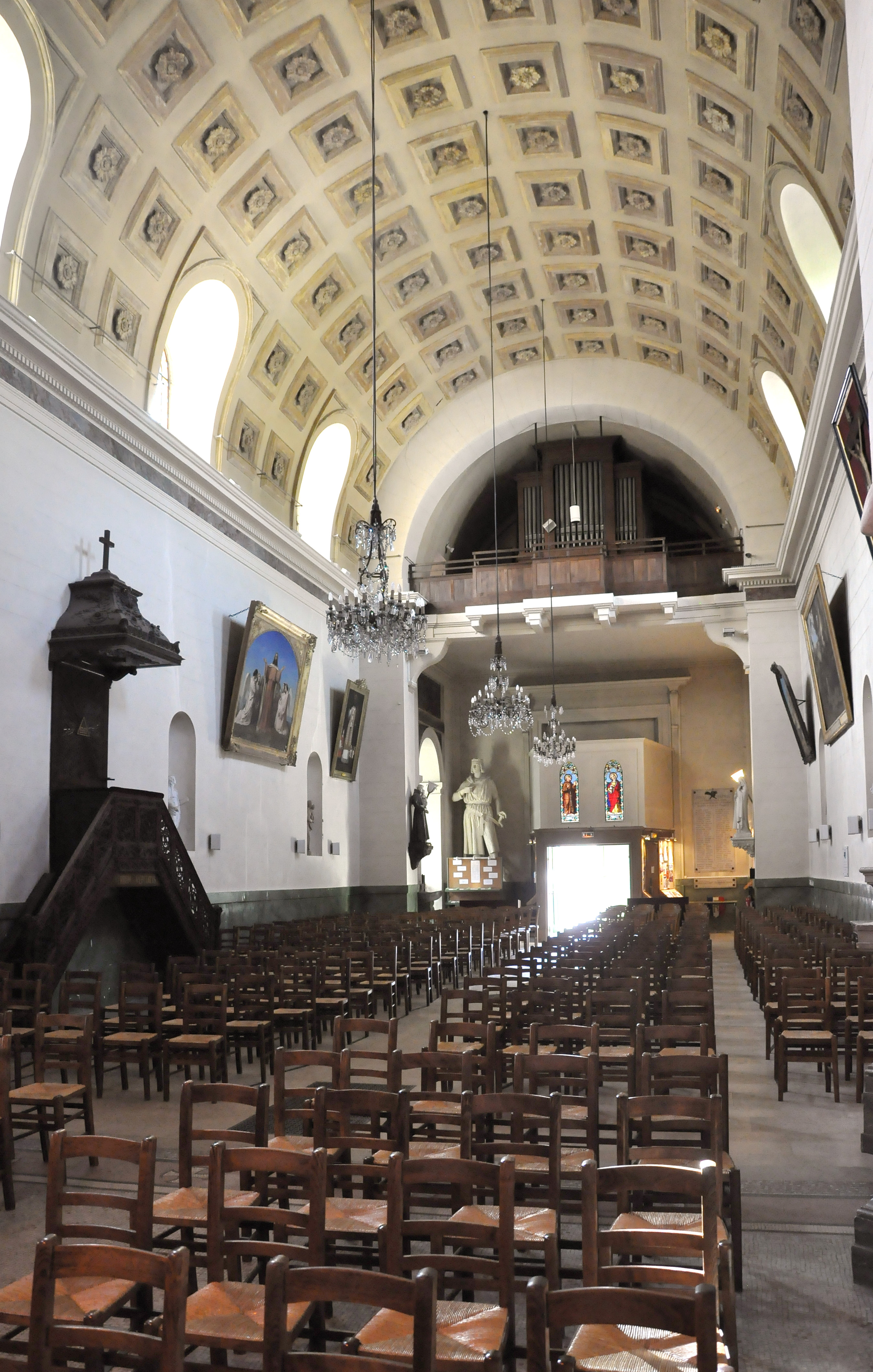 Church interior of Saint-Nicolas-et-Saint-Marc church in Ville-d'Avray, Hauts-de-Seine department, in France.